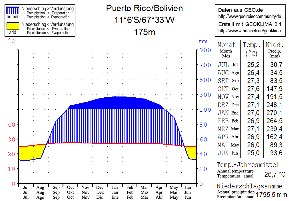 Climate chart in the Walter and Lieth format, metric, °Celsius und millimeters, made with Geoklima 2.1